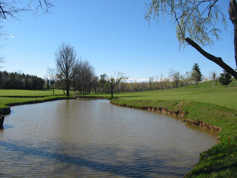 Water Hazard at Hole 5, La Margherita Golf Course, Carmagnola, Italy